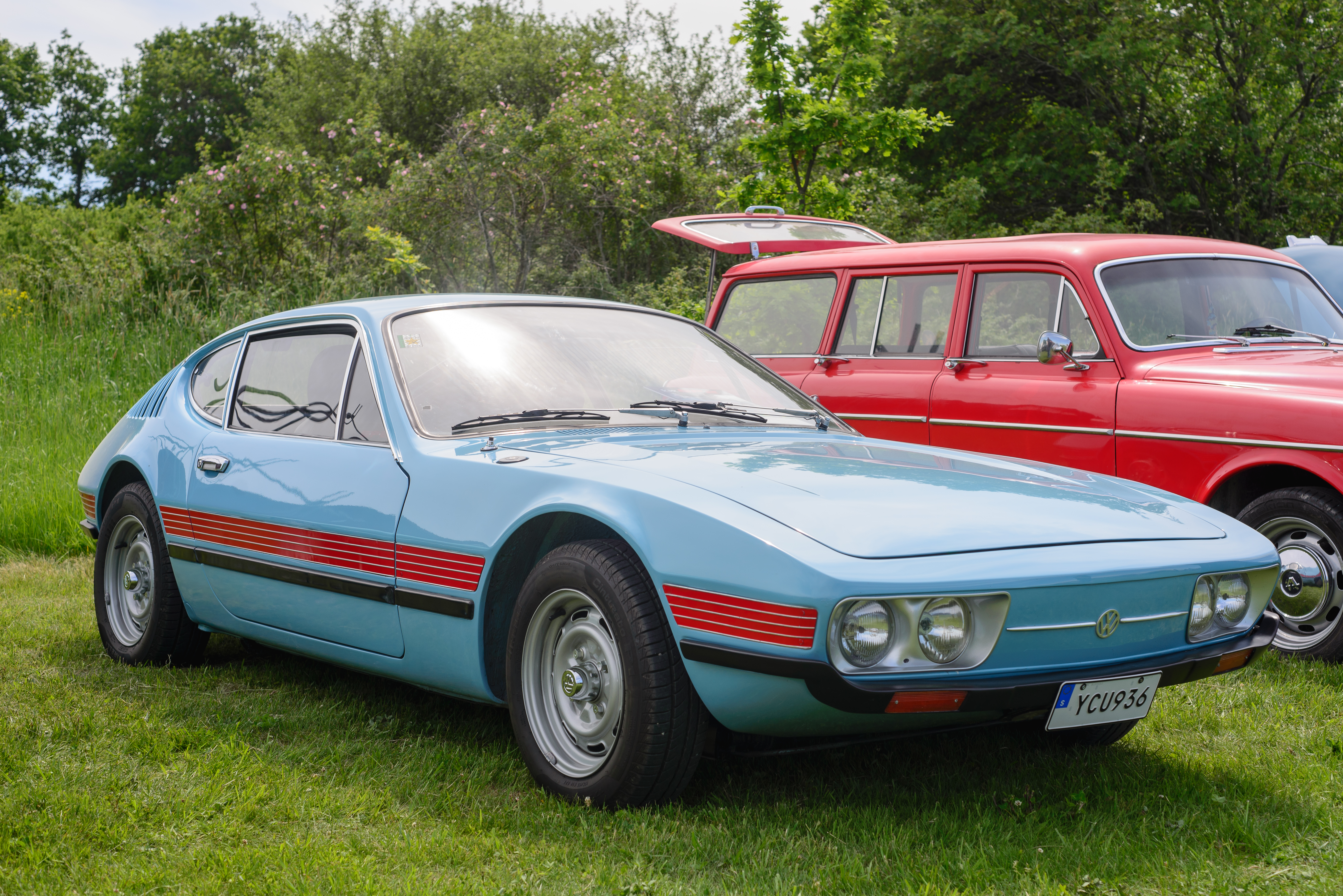 1973 Volkswagen SP2.